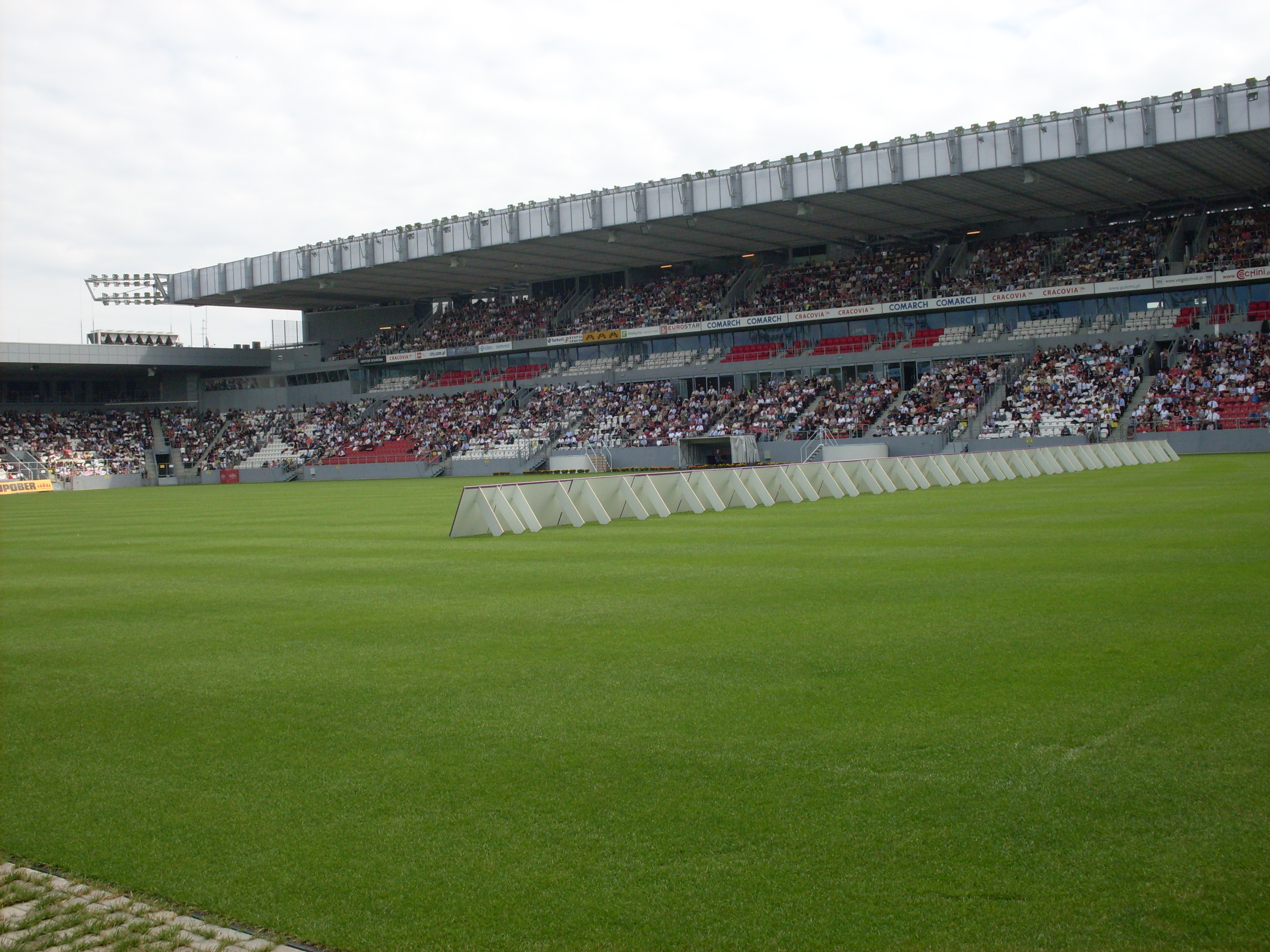 Kongres Świadków Jehowy, Kraków stadion Cracovii, 2011